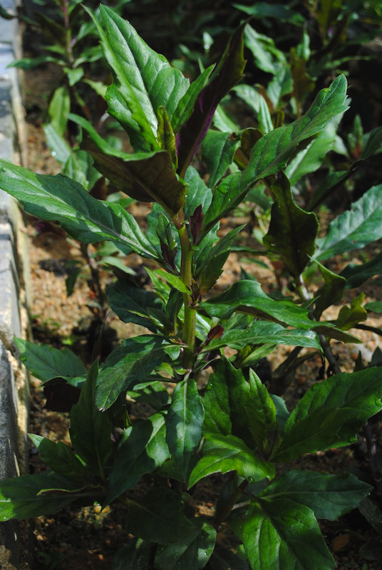 Gynura bicolor vegetable (hongfeng cai 紅鳳菜) with purple underneath the leaves, used for cooking.